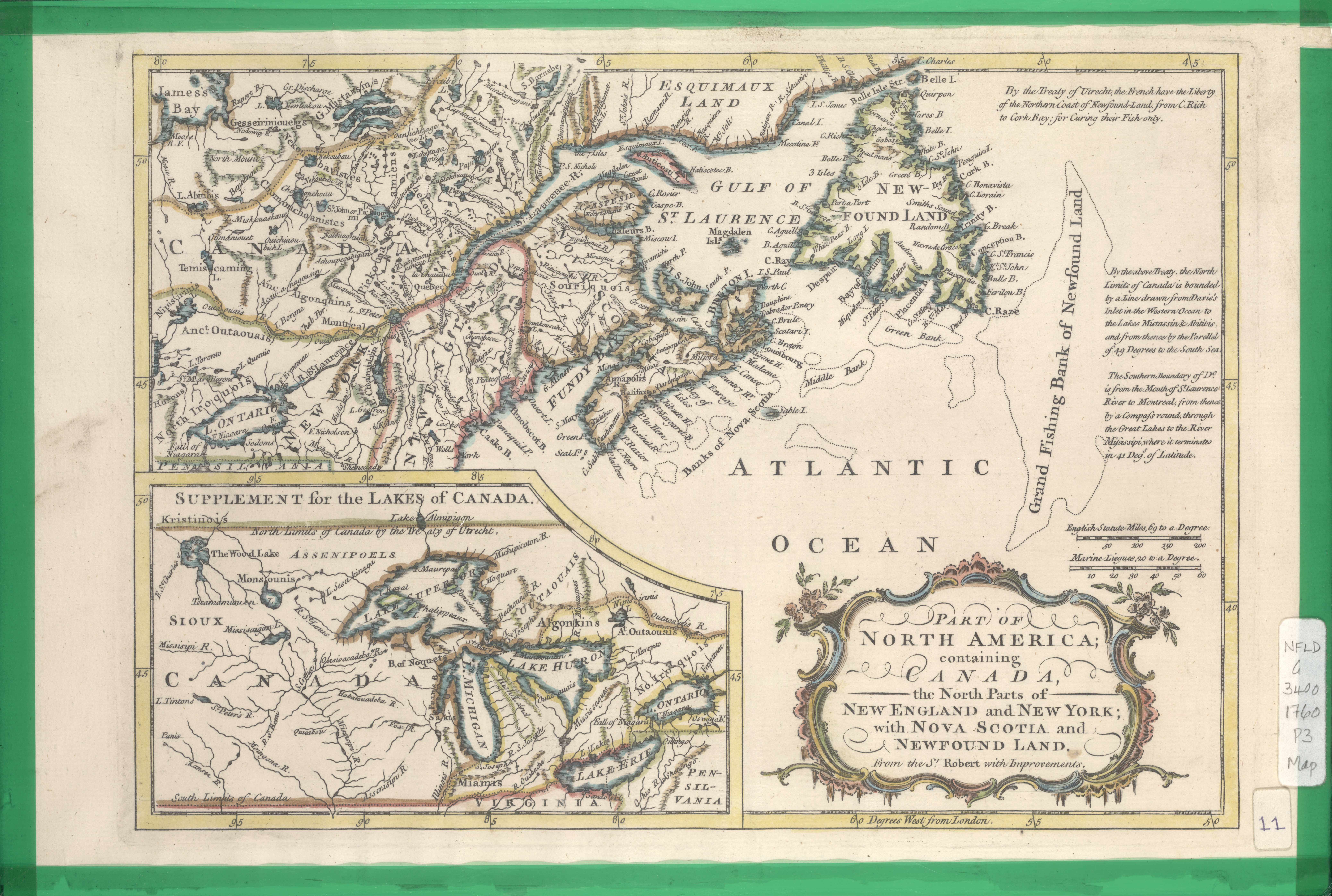 Title: "Part of North America; containing Canada, the north parts of New England and New York; with Nova Scotia and Newfound Land". Bar scale units in English statute miles and marine leagues. Prime meridian London. Includes notes on the Treaty of Utrecht.